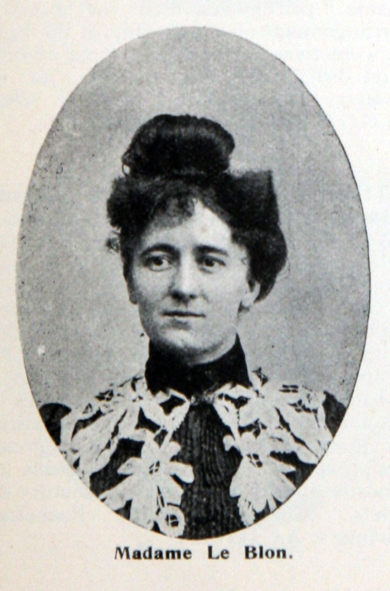 Madame Motan Le Blon - Wife and riding mechanic of Hubert Le Blon. circa 1904.